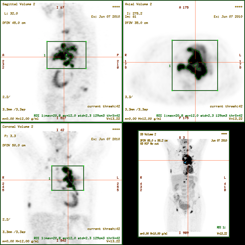 3-dimensional SUV segmented on 42% of the maximum SUV within the cubic master ROI. The workstation automatically calculates volume and additional statistics. The blue spot marks the maxium within the volume